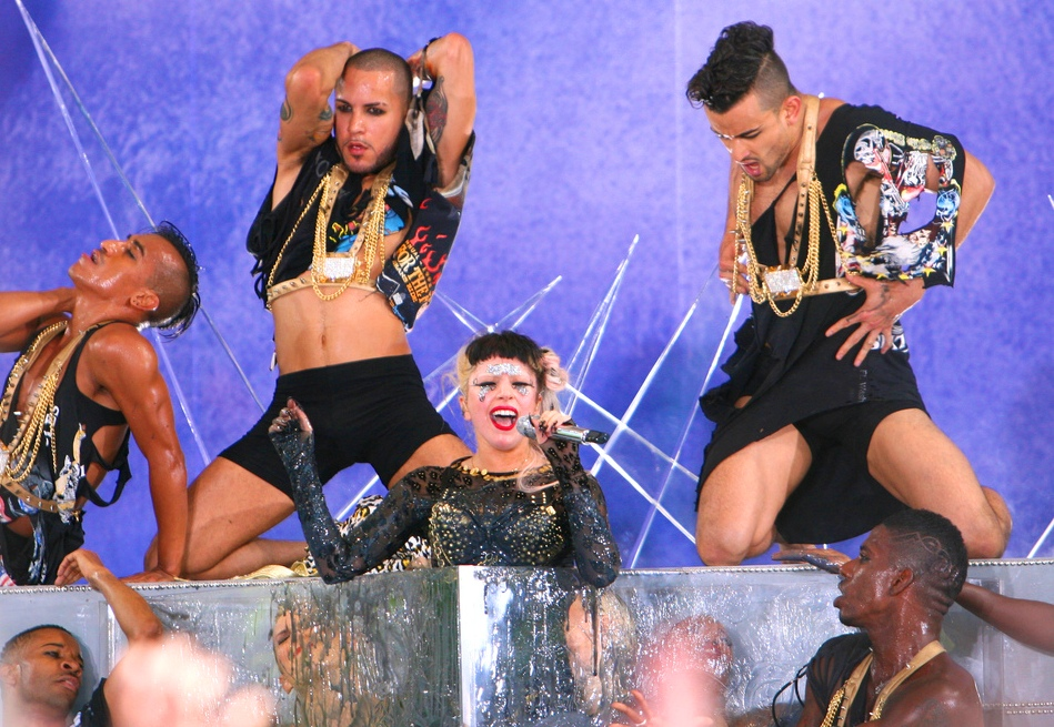 Gaga perfoming "Born This Way" on GMA